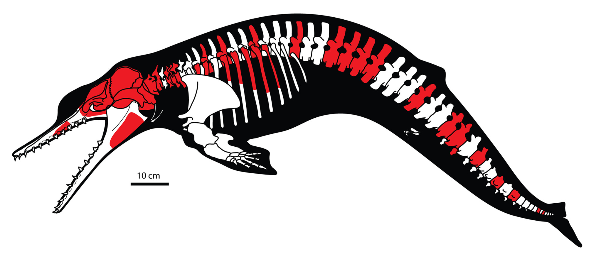 Reconstruction of Albertocetus, showing known bones in red. From Boessenecker et al. 2017, CC-BY. Citation: Boessenecker RW, Ahmed E, Geisler JH (2017) New records of the dolphin Albertocetus meffordorum (Odontoceti: Xenorophidae) from the lower Oligocene of South Carolina: Encephalization, sensory anatomy, postcranial morphology, and ontogeny of early odontocetes. PLoS ONE12(11): e0186476.